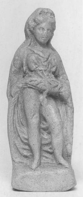 Terracotta anasyromenos figurine, from a Nymphs sanctuary in Locri, National Archaeological Museum of Reggio Calabria; late 4th century BC.